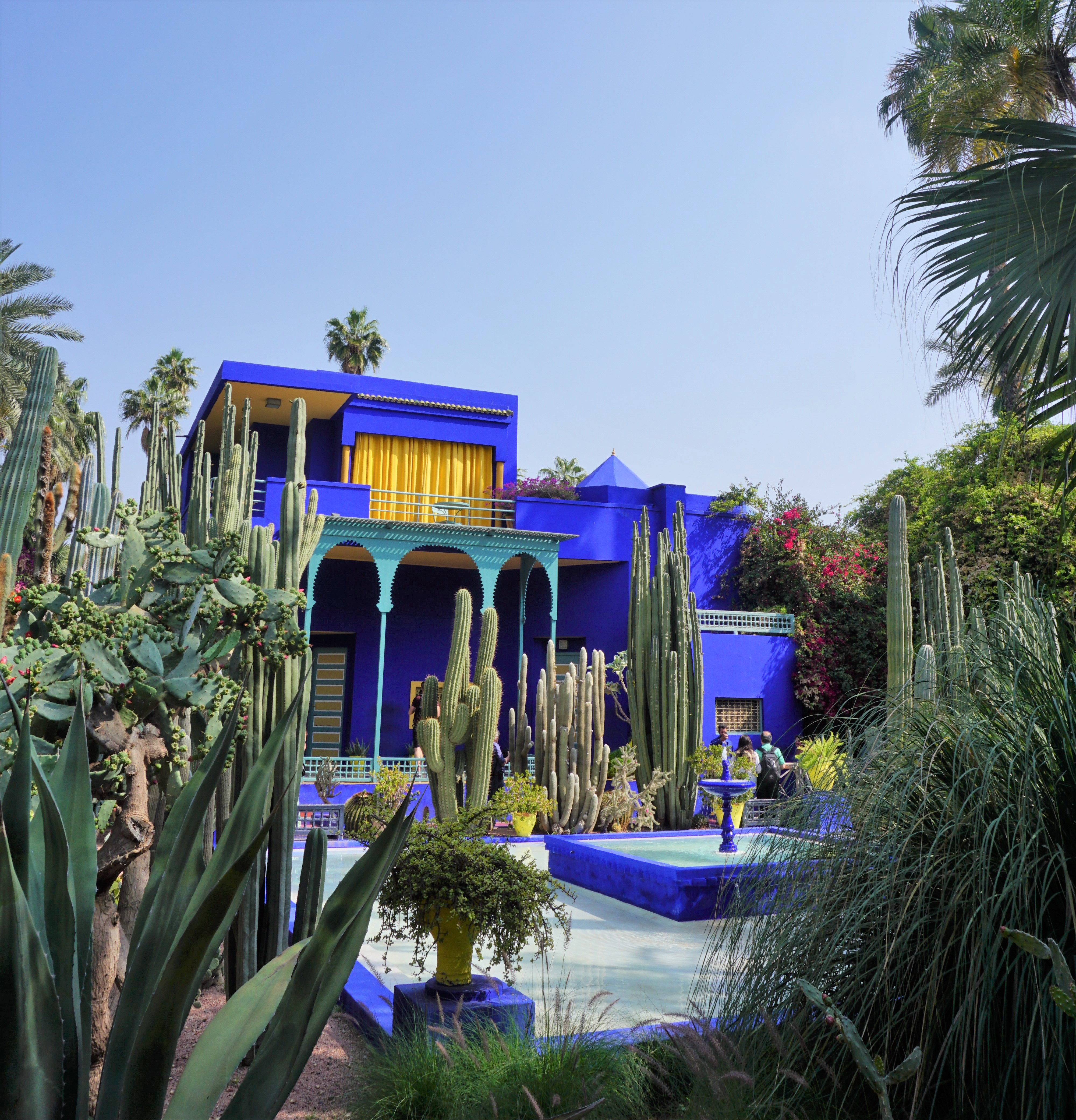 Pictured is the former studio of Jacques Majorelle, located in the centre of the botanical garden "Jardin Majorelle" in Marrakech.